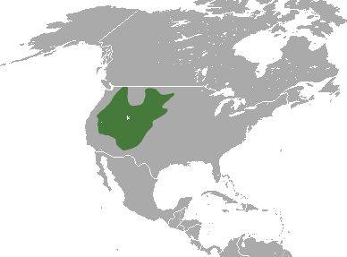 Merriam's Shrew (Sorex merriami) range